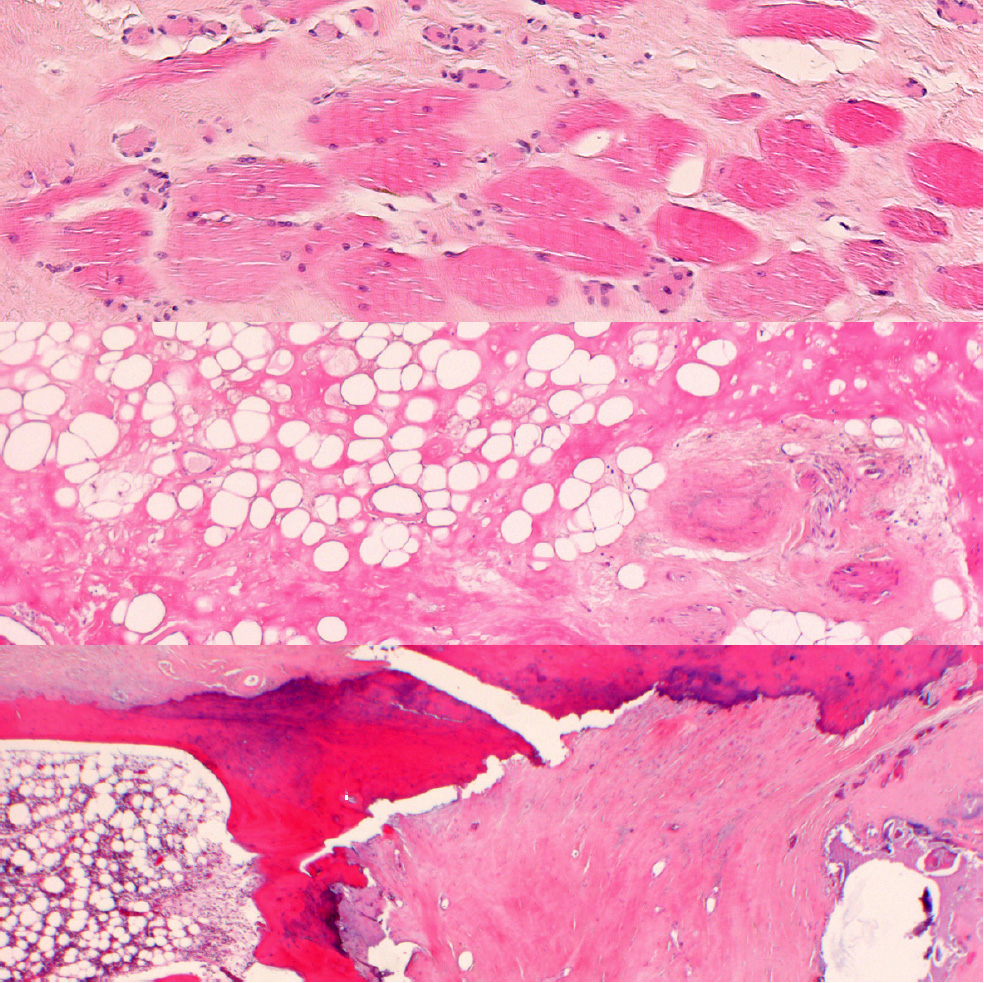 Histological characteristics of the specimen. Wide, almost scarred, radionecrosis and fibrosis of muscle, fat and bone, and extended dystrophic calcifications corresponding to a radiation-induced vasculopathy.